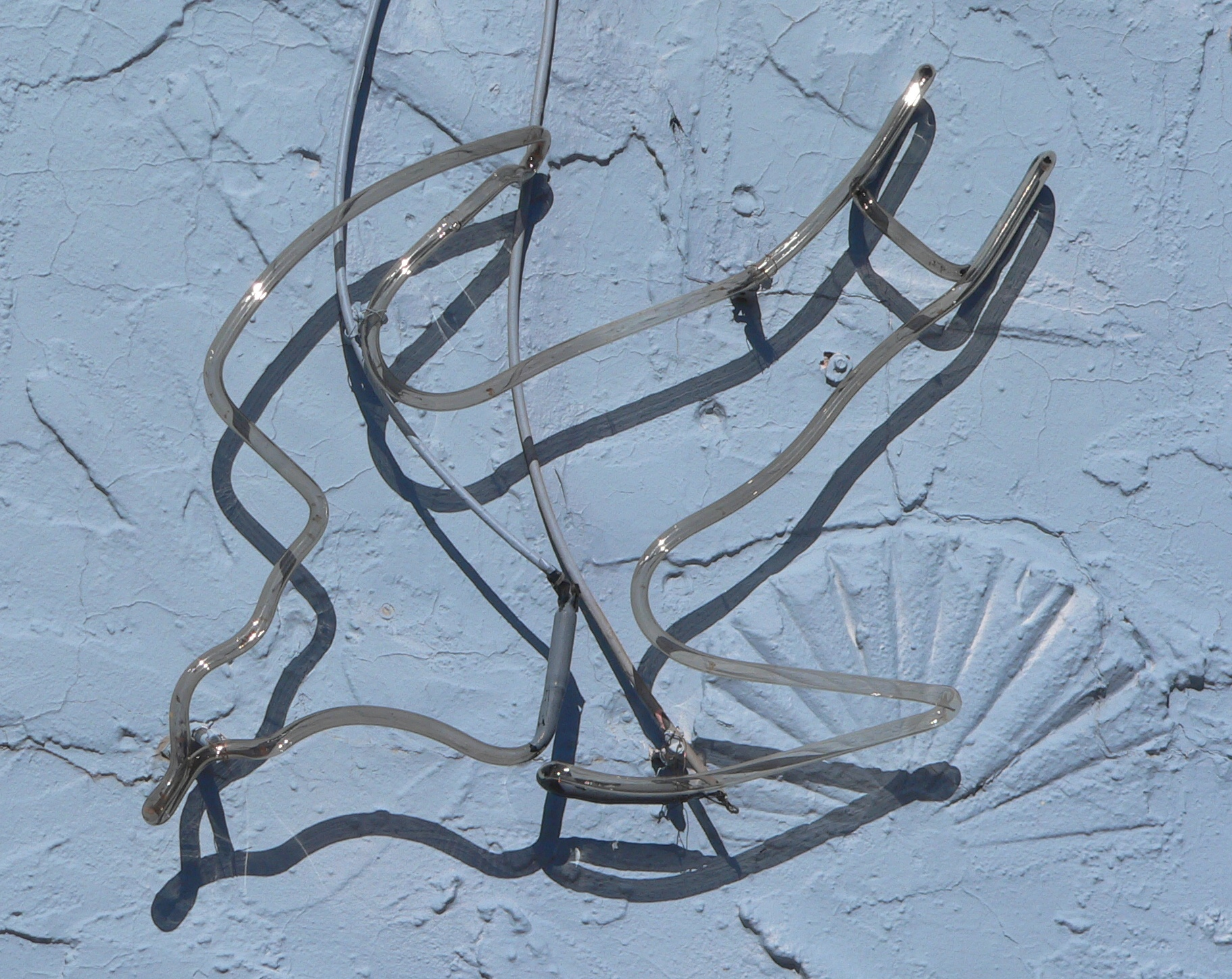 Blue Swallow Motel, located at 815 E. Tucumcari Boulevard in Tucumcari, New Mexico: neon sign over room 15.